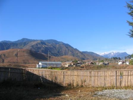 Picture of Anini town